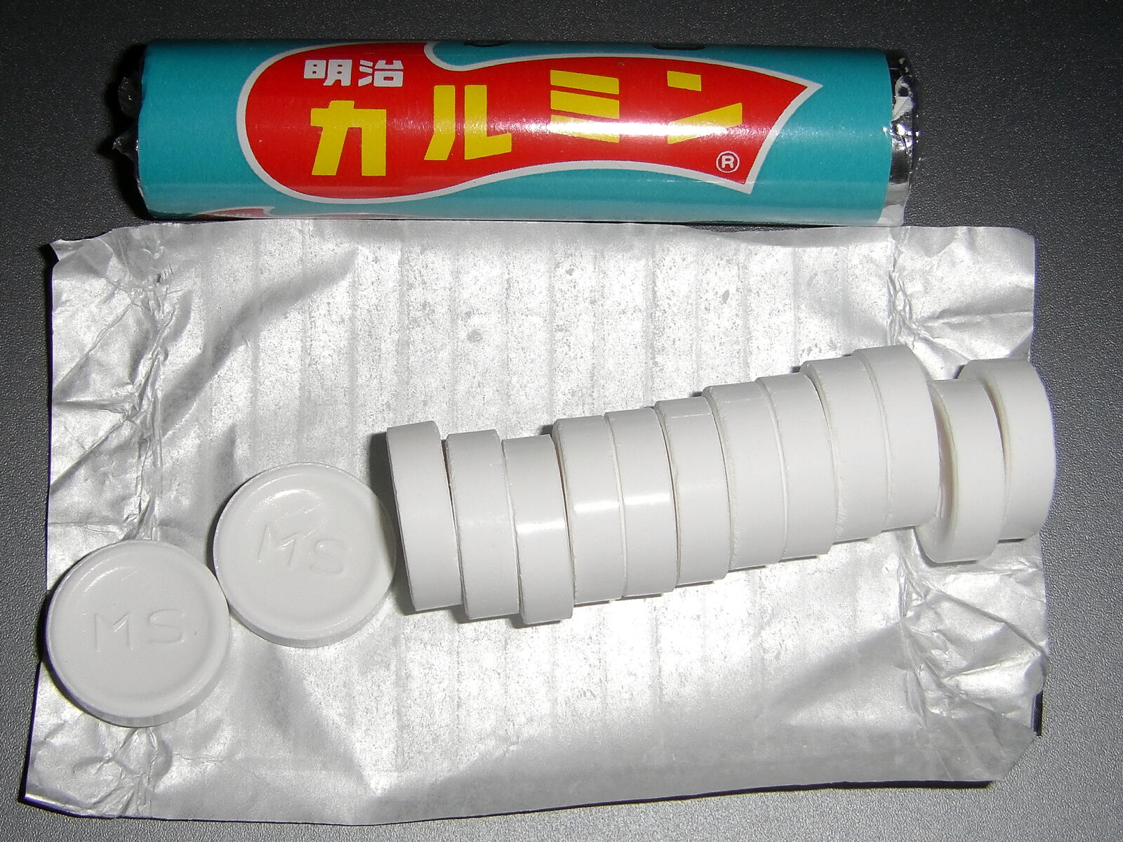 Calmin